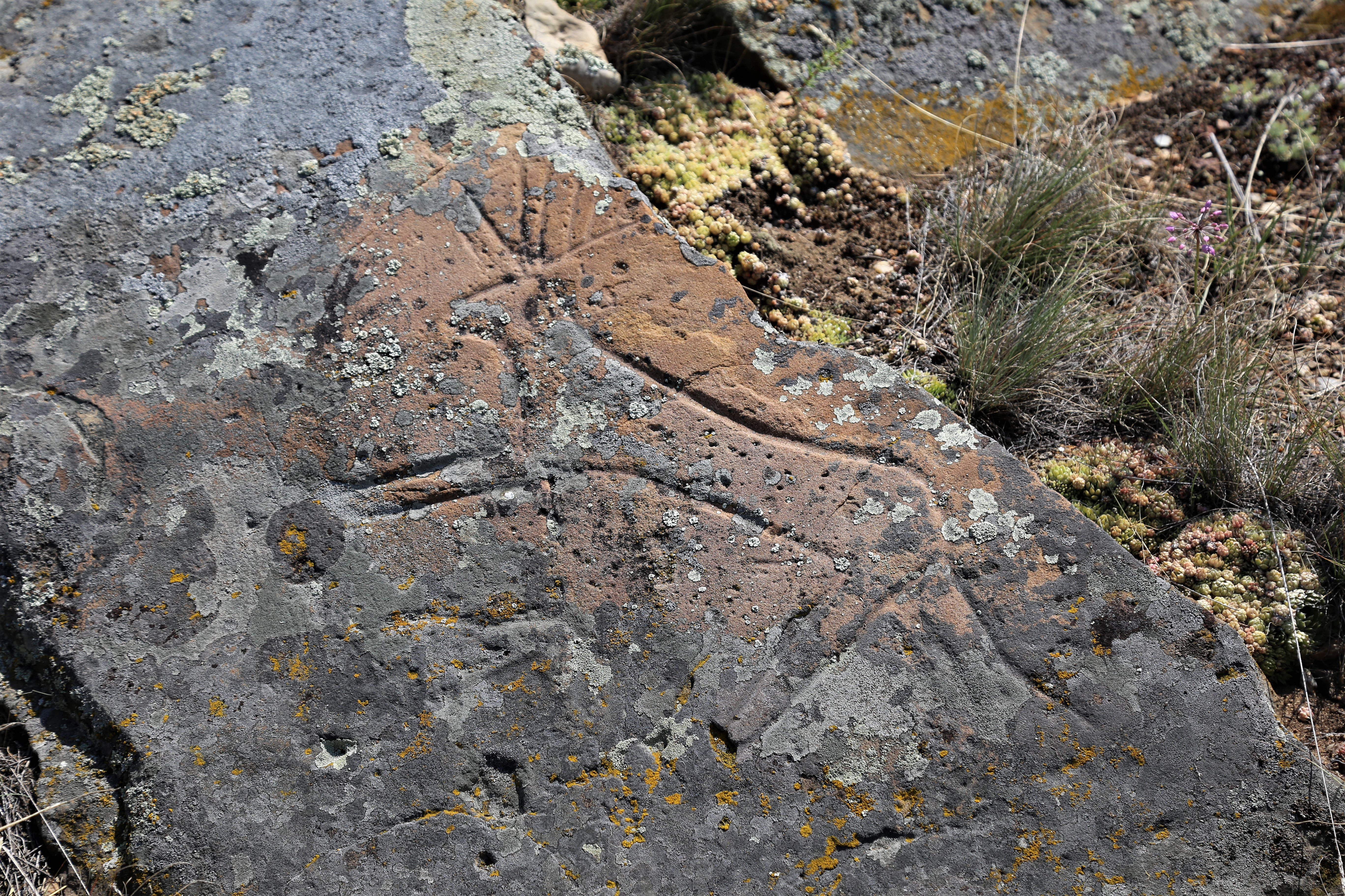 Olenty Petrogliphs